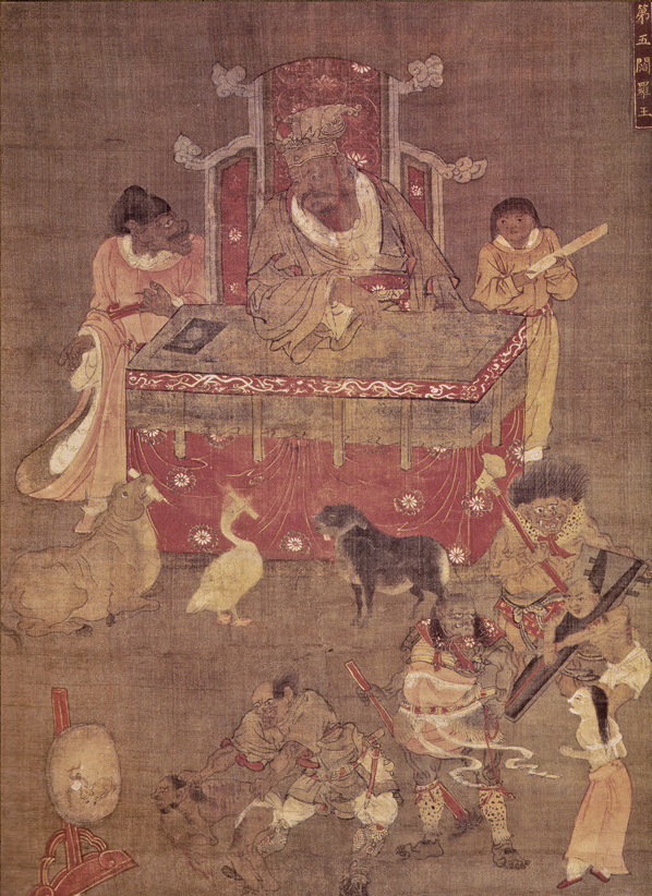 Ten Kings of Hell, No. 5